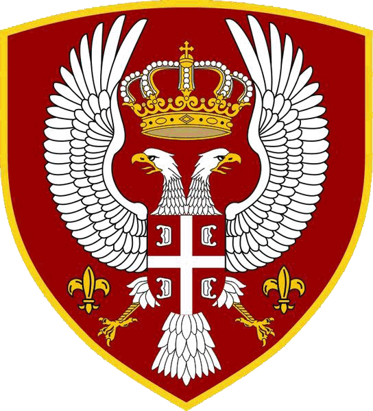 Military Security Agency Badge